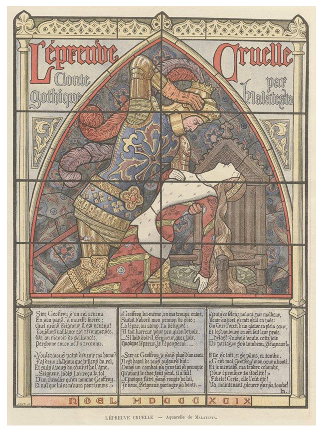 L'Épreuve cruelle, conte gothique, published in Paris: Le Monde illustré issue 2230.